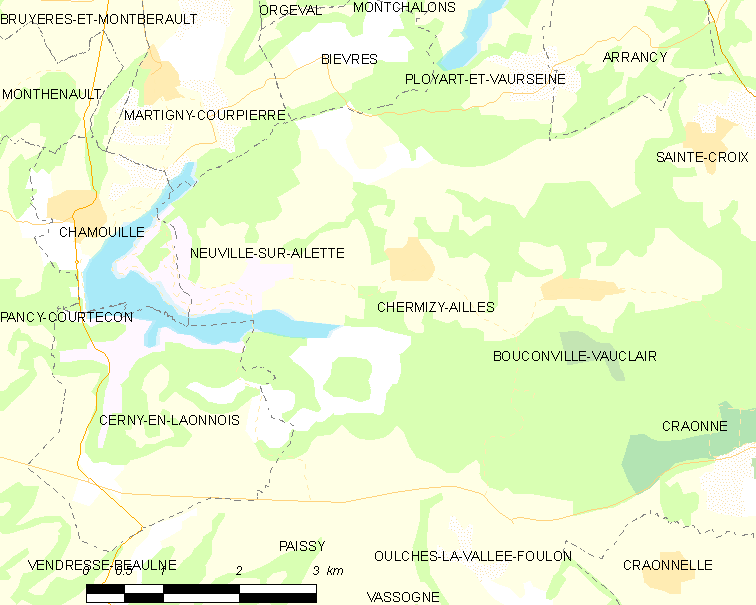 Map of French commune: Chermizy-Ailles Map commune FR insee code 02178.png